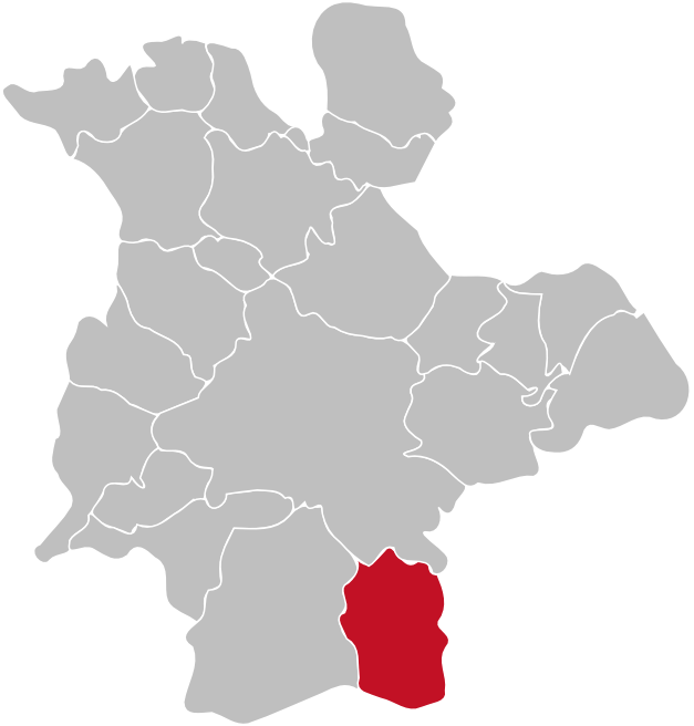 Location of the district Eisern within Siegen, Germany. Red/Grey colors match the color scheme of Germany maps and information boxes in German Wikipedia. District is highlighted in red.